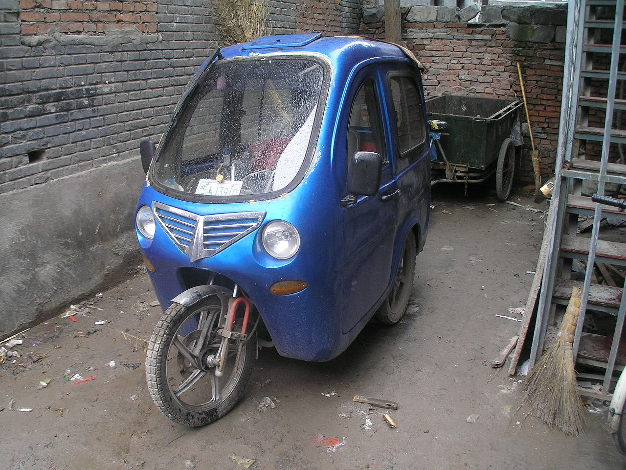 Ruri Factory Beijing (Liu Li Chang) tricycle